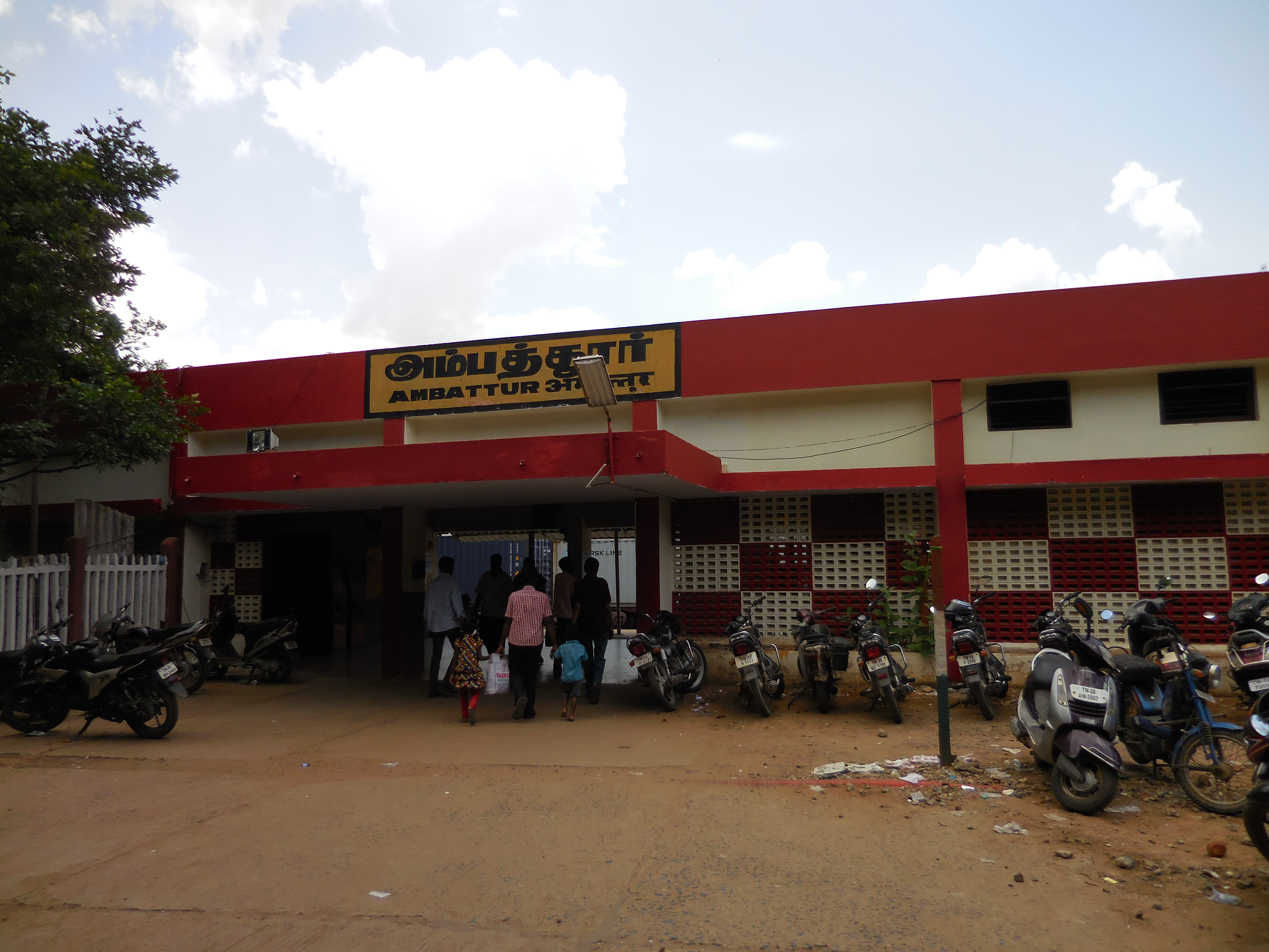 Chennai Ambattur railway station entrance view, taken on 5 July 2014, 12:47 pm